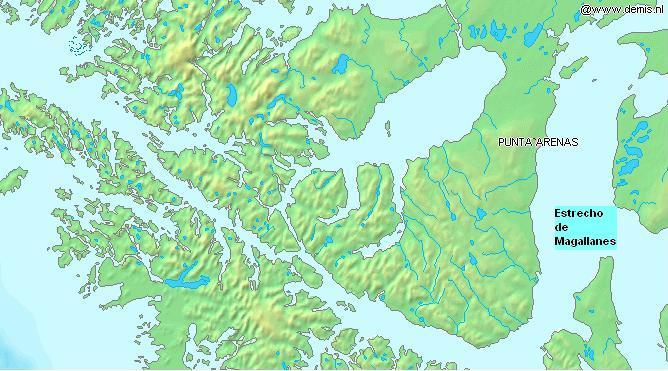 Brunswick Peninsula Magallanes Region, Chile (modified on demis free maps)